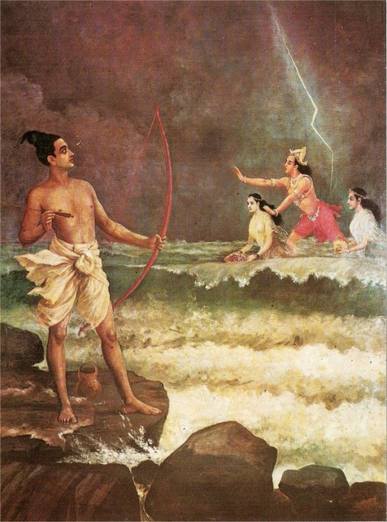 Varuna the Lord of ocean, pacifying Sri Rama, angered at the intransigence of the sea to give way to enter Lanka.